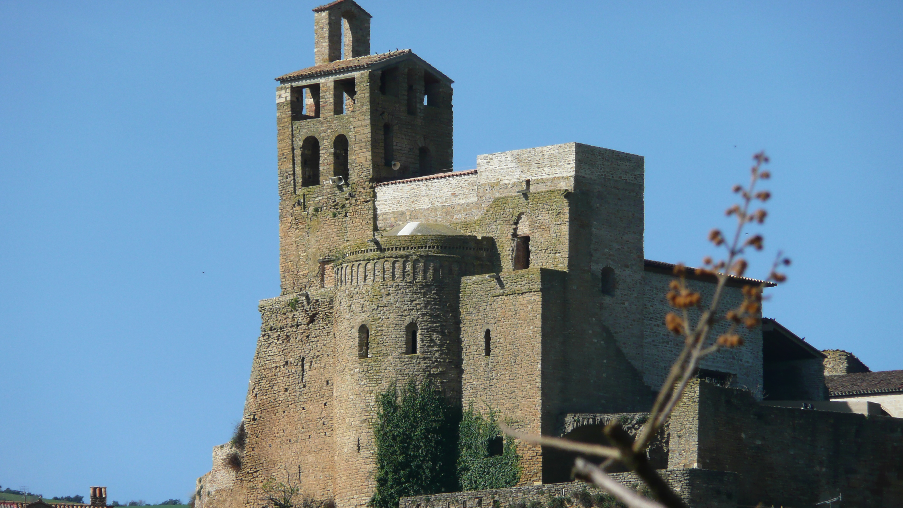 Àger castle (Noguera shire) taken from miles away.